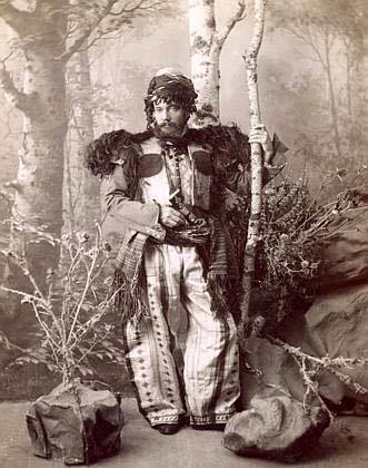 Armenian man from Sasun, near Lake Van, at the turn of the 20th century.